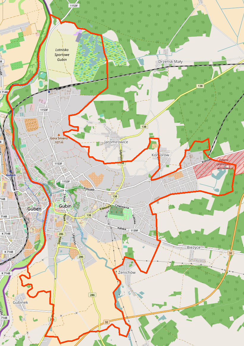 Location map